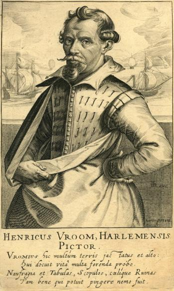 Portrait of Hendrick Cornelisz. Vroom